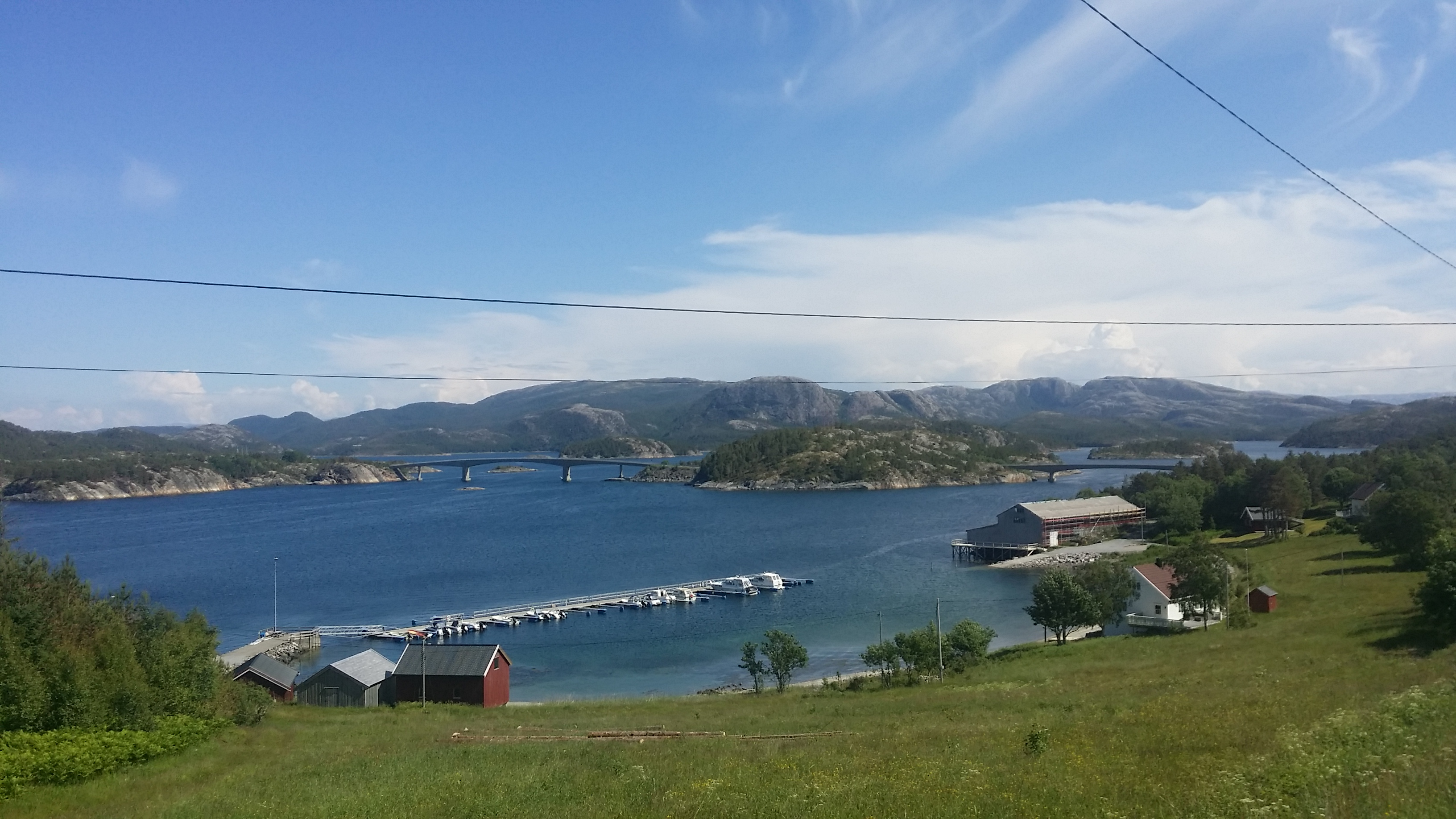 From Smineset towards the bridges Hestøybrua (left) and Sminesbrua (right), in Nærøy, Norway